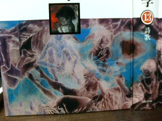 nihonnogenbakubungaku-3